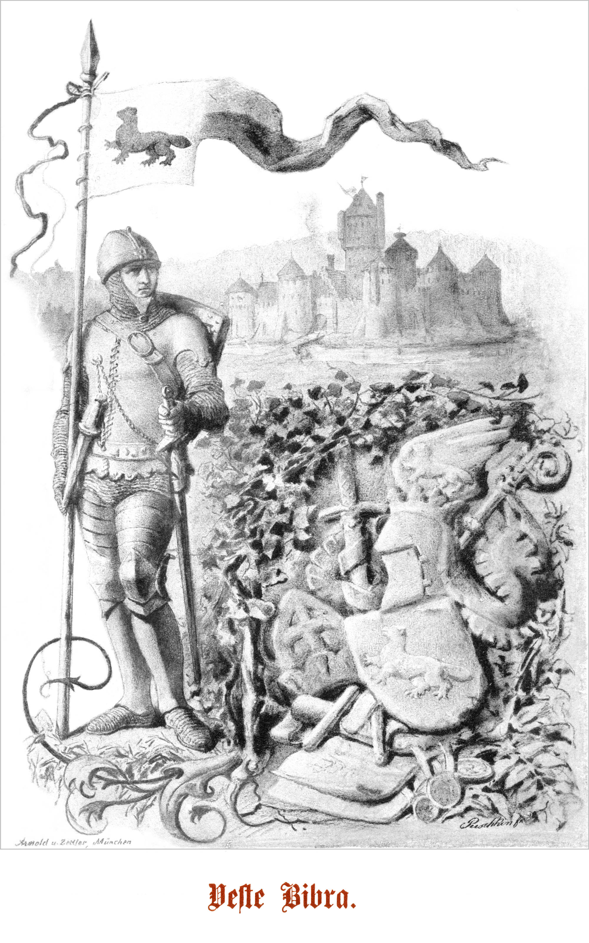 digitally restored by myself of an old image, image is a knight with Bibra shield with an exagerated representation of the castle Bibra presumably at the height of its construction c. 1500 (it was enlarged in the late 1400's and partially destroyed c. 1525)